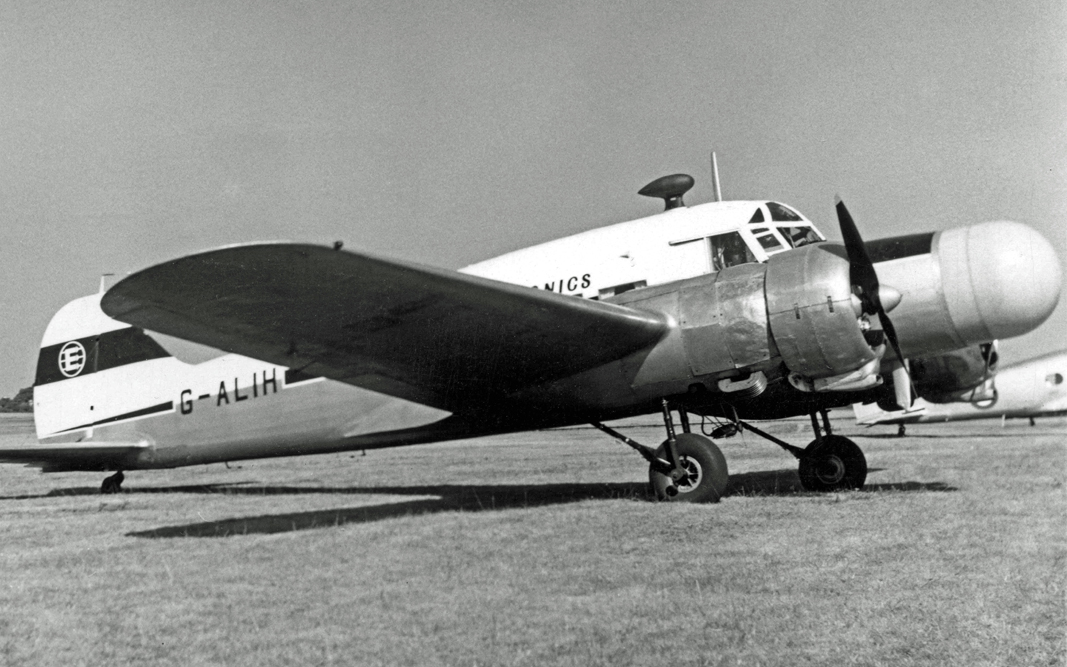 Avro 652A Anson 11 G-ALIH, with extended radar nose, of Ekco Electronics at Blackbushe Airport in 1955